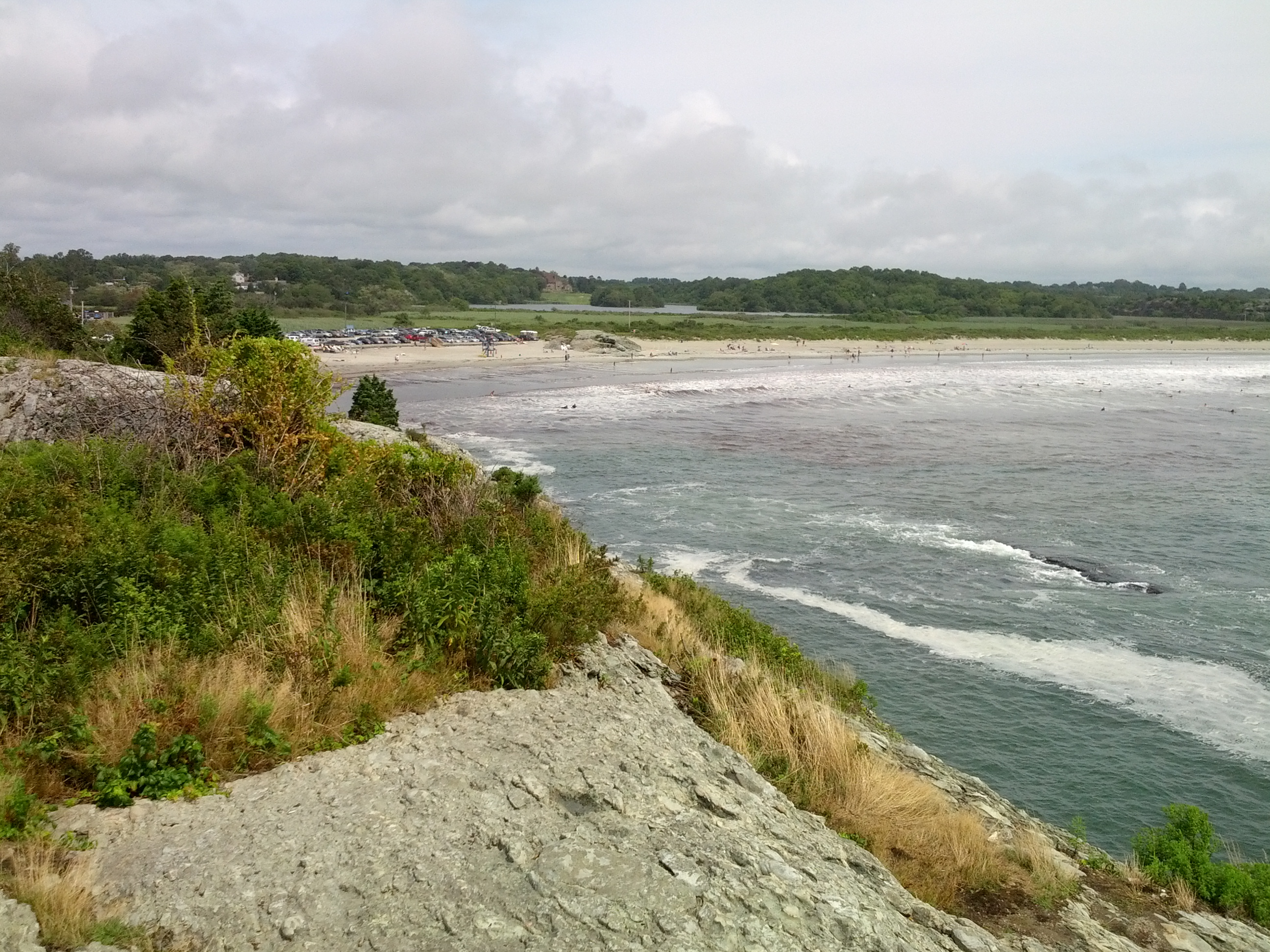 View of Second Beach, Middletown, Rhode Island